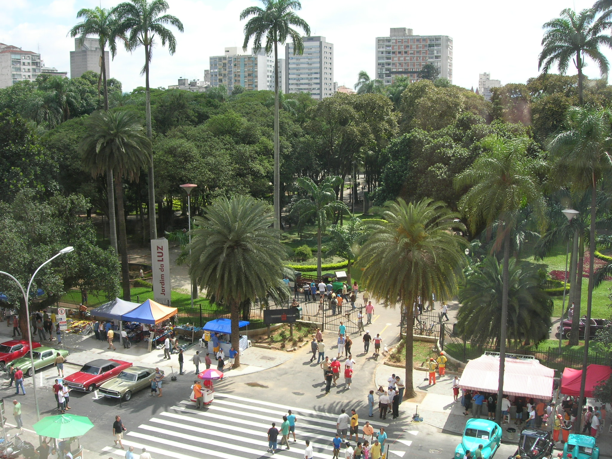 Shot of the Praça da Luz - São Paulo, SP.